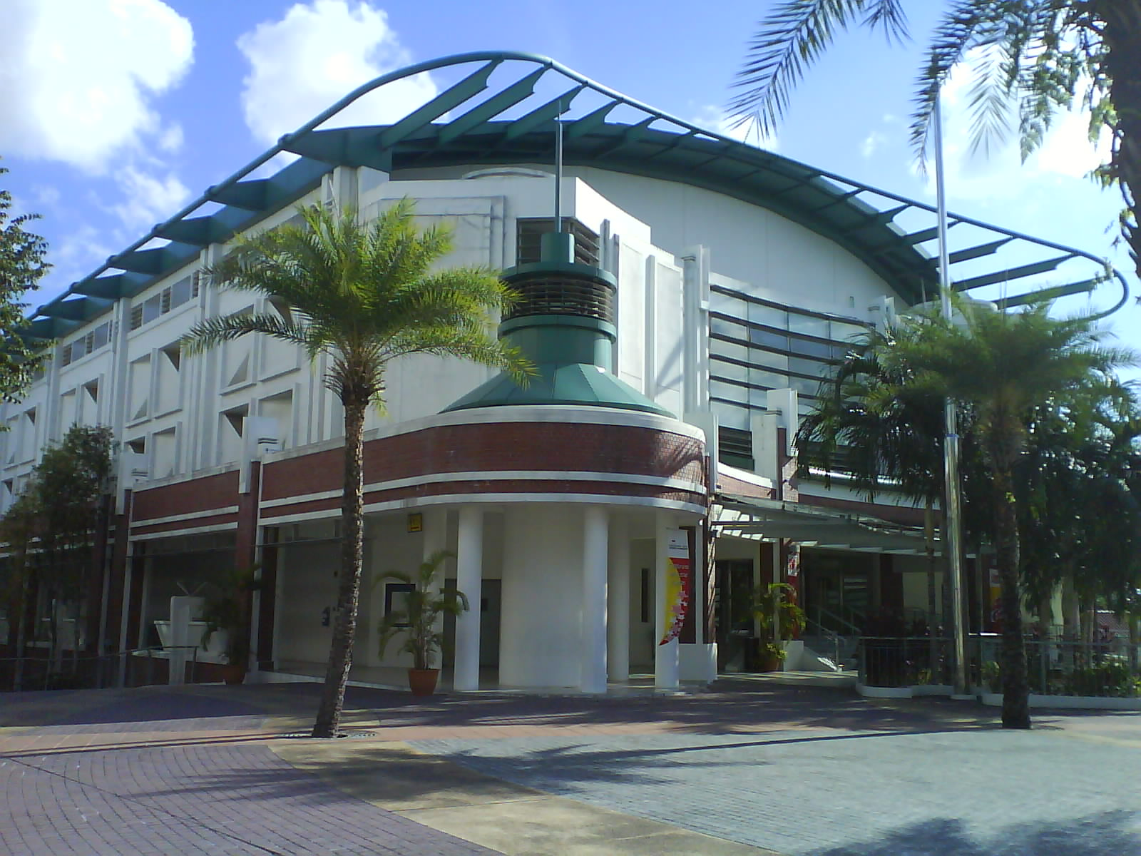 ACS (Barker Road) concert hall